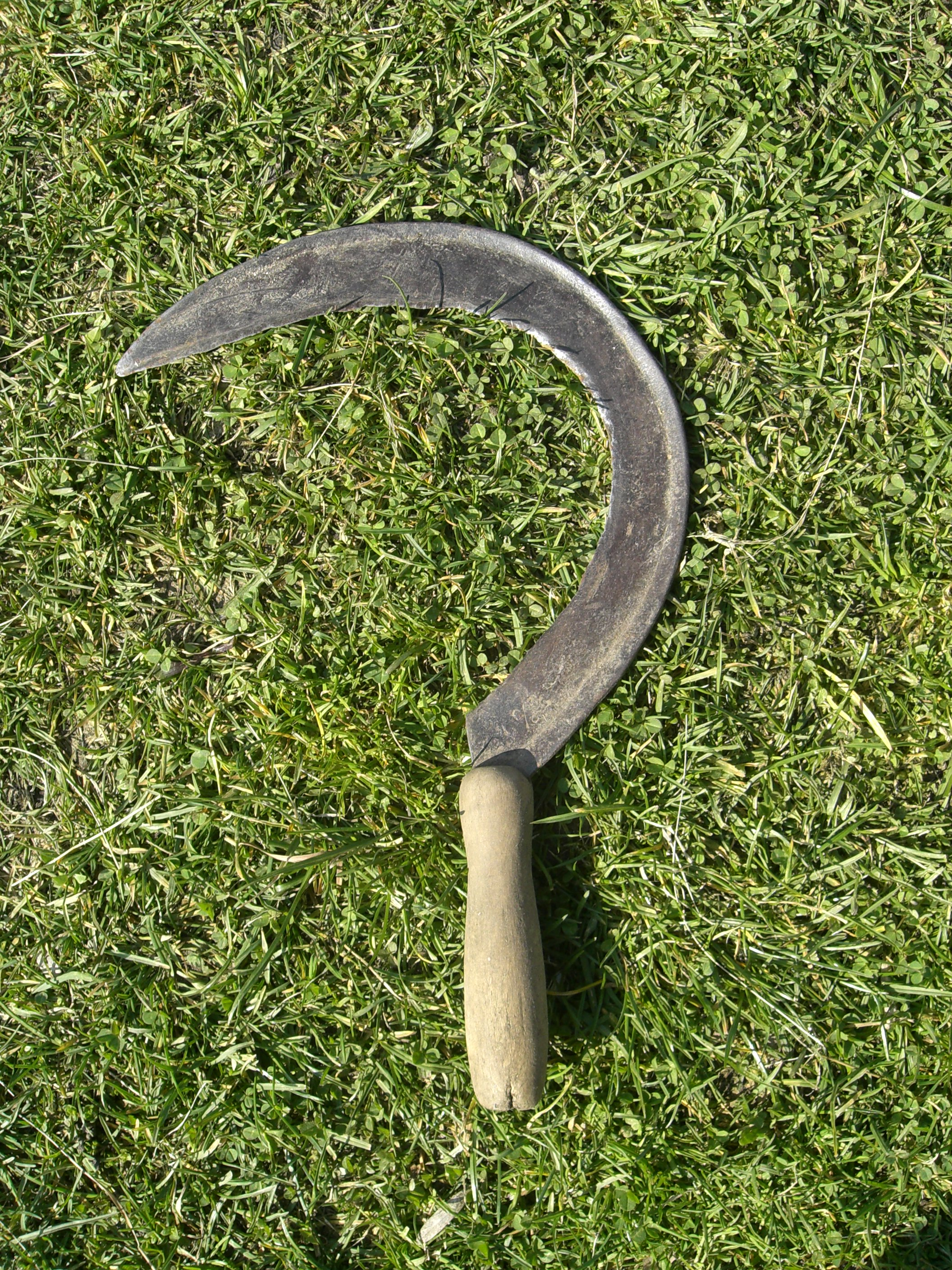 Sickle